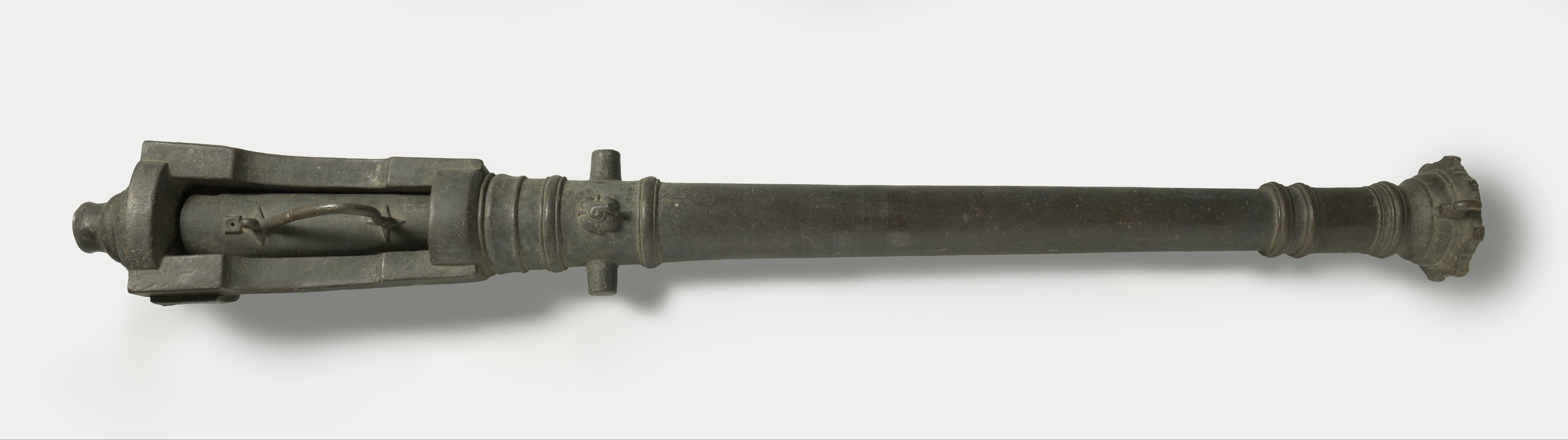 IdentificationTitle(s): Breech-Loading Swivel Gun with Two ChambersObject type: Lilla (lela cannon) [actually a cetbang] Object number: NG-MC-1358Description: Bronze breech-loading gun on a swivel. The gun has a flower-shaped muzzle with a flat surface, and a round barrel. The trunnions are placed between two hoops. At the height of the trunnions there is a sight shaped like a snake on a four-part cushion. The eyes of the bronze yoke are forged around the trunnions, so that the gun cannot be removed from the yoke. The gun has a closed chamber breech and a tubular, hollow cascable button to fit a wooden tiller. With the gun belong two conical chambers with tapered neck and elegant handles (only one chamber depicted); the barrel has a 4.5 cm calibre. The wedge is missing.ManufactureMaker: Gun: anonymousPlace of manufacture: Indonesian Archipelago (possibly)Date: 1750 - 1850Material: bronze Dimensions:Whole: length 180,5 cm, width 21,5 cm.Muzzle: diameter 16,5 cm.Base handle: length 10,5 cm.Base to flared muzzle: length 170 cm, calibre 5,5 cm, weight 120,8 kg.Chamber: height 35 cm, calibre 4,5 cm.Data unknown: height 13 cm, width 277,5 cm, diameter 78 cm, weight 30 kg.Total: weight 363 kg (incl. specimen, NG-NM-9345-A and NG-2000-33)Acquisition and rightsAcquisition: Transferred from the Ministerie van Marine (Department of the Navy), The Hague, to the museum, 1883Copyright: Public domain